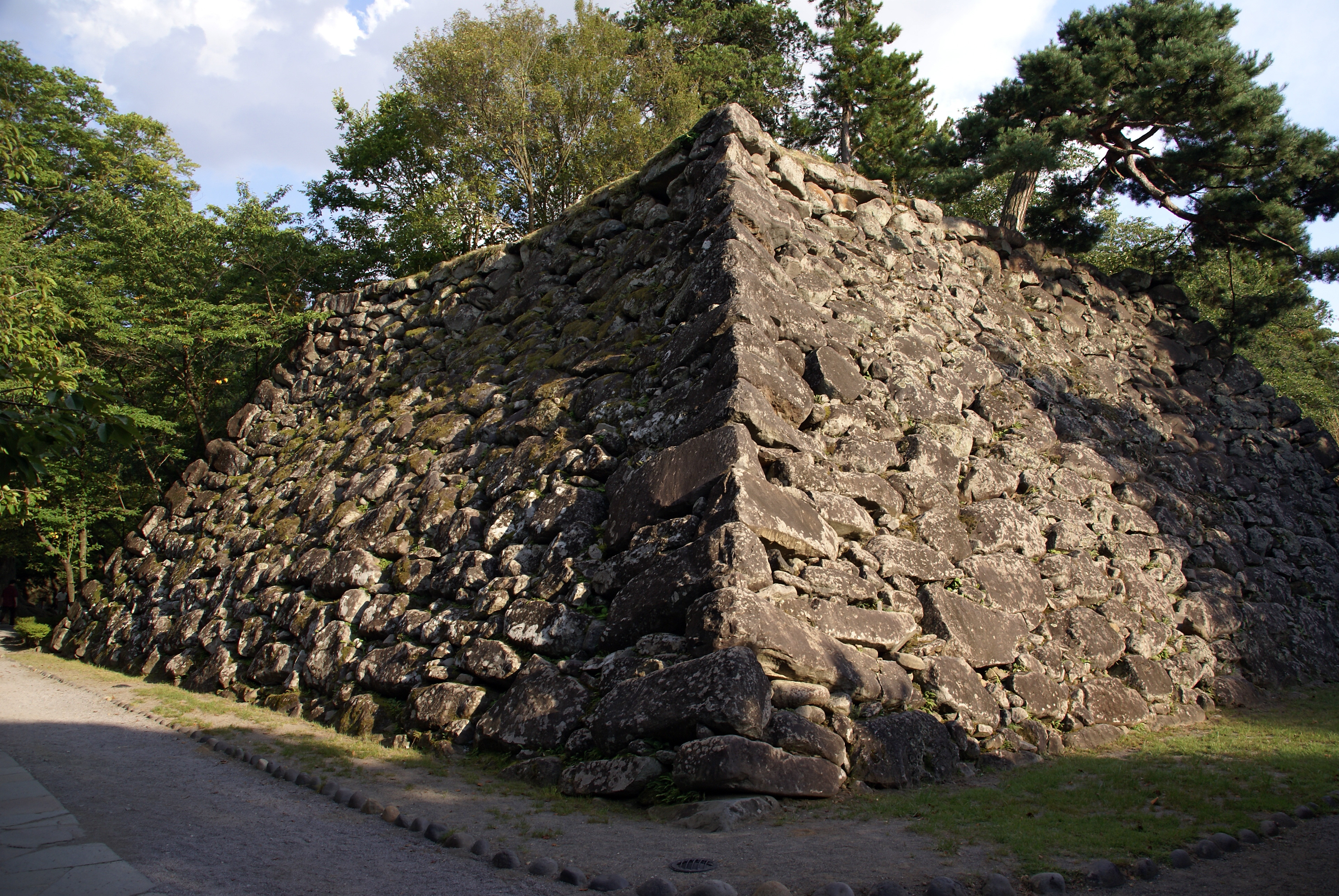 Komoro Castle in Komoro, Nagano prefecture, Japan